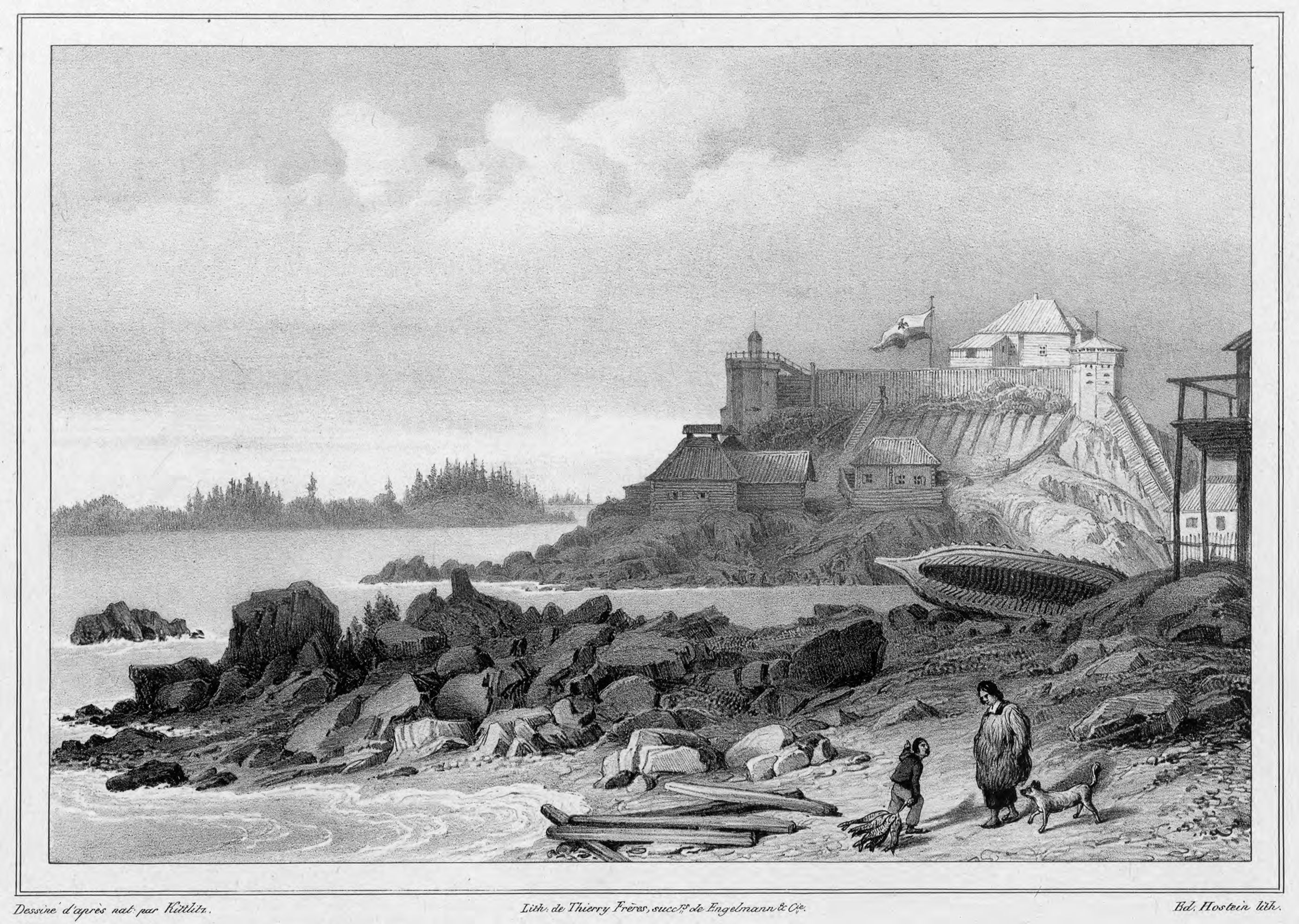 1827 illustration of Castle Hill (Old Sitka, Alaska) by Postels. Source: Alaska Department of Natural Resources. image URL